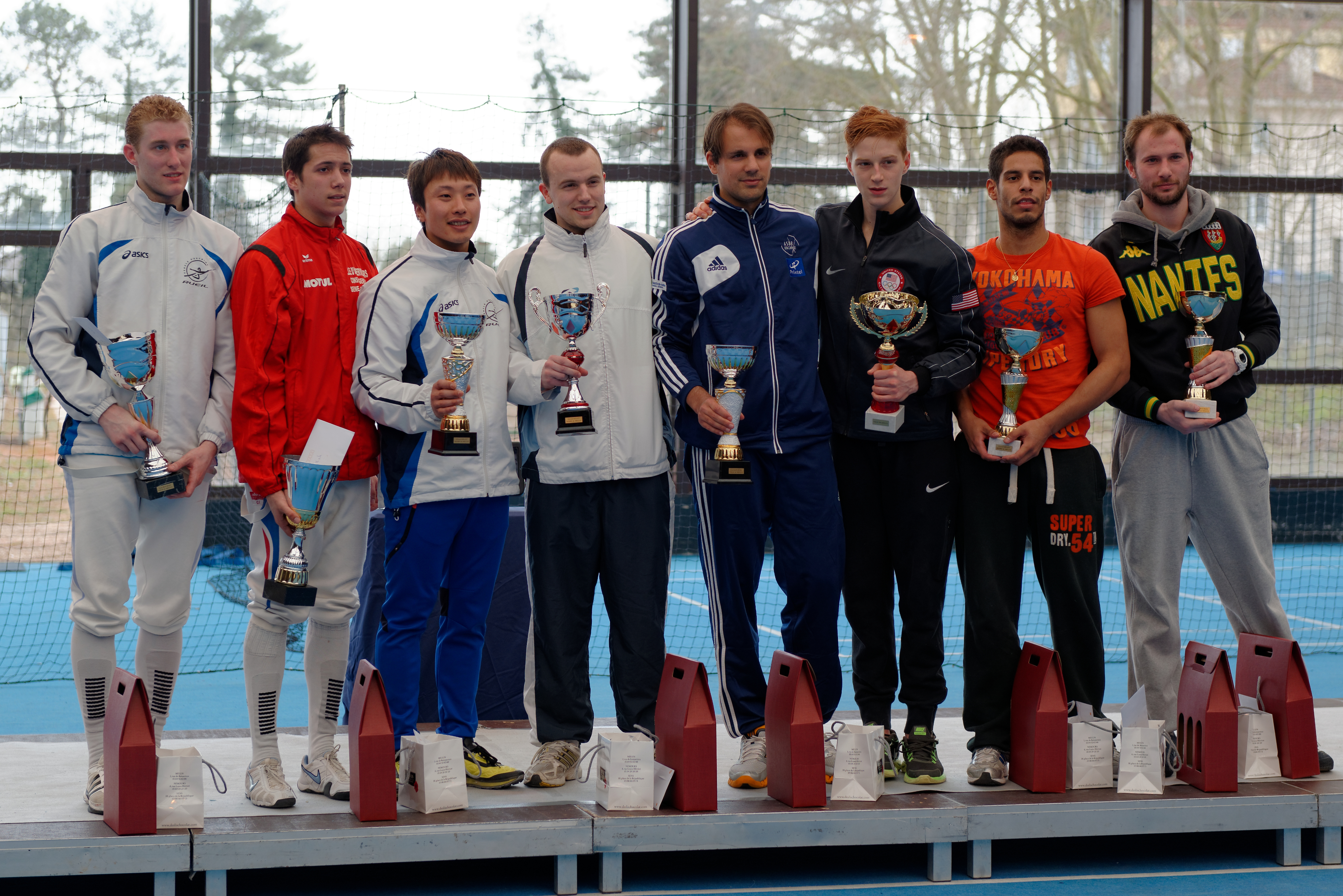 Trophy presentation of the Challenge Revenu 2013 in Melun, France. From left to right, Julien Mertine (FRA), Roman Djitli (FRA), Choi Byung-chul (KOR), Benoît Journet (FRA), Jérôme Jault (FRA), Race Imboden (USA), Jordan Moine (FRA), and Ghislain Perrier (FRA).